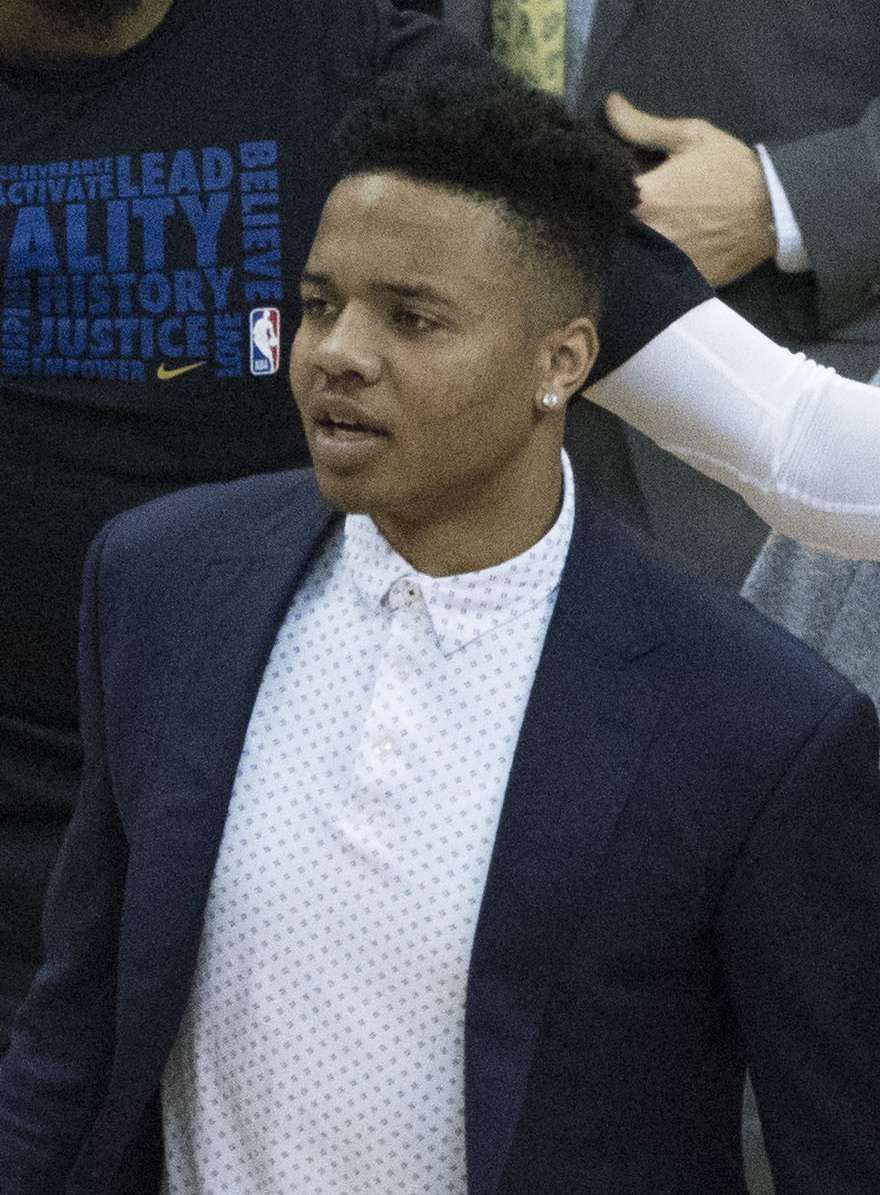 76ers at Wizards 2/25/18